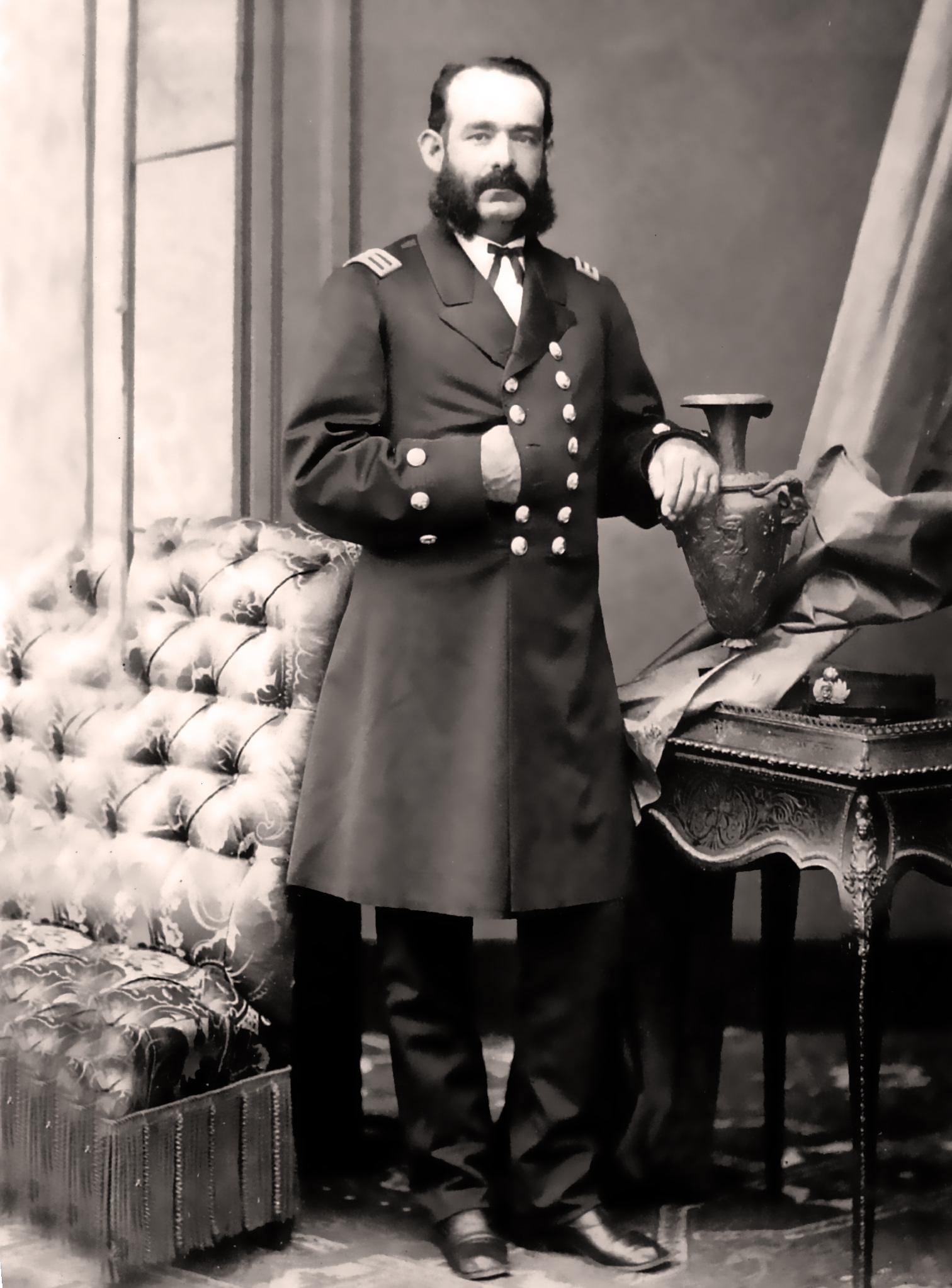 Captain Miguel Grau, renown officer from the Peruvian Navy, posing for a photograph.